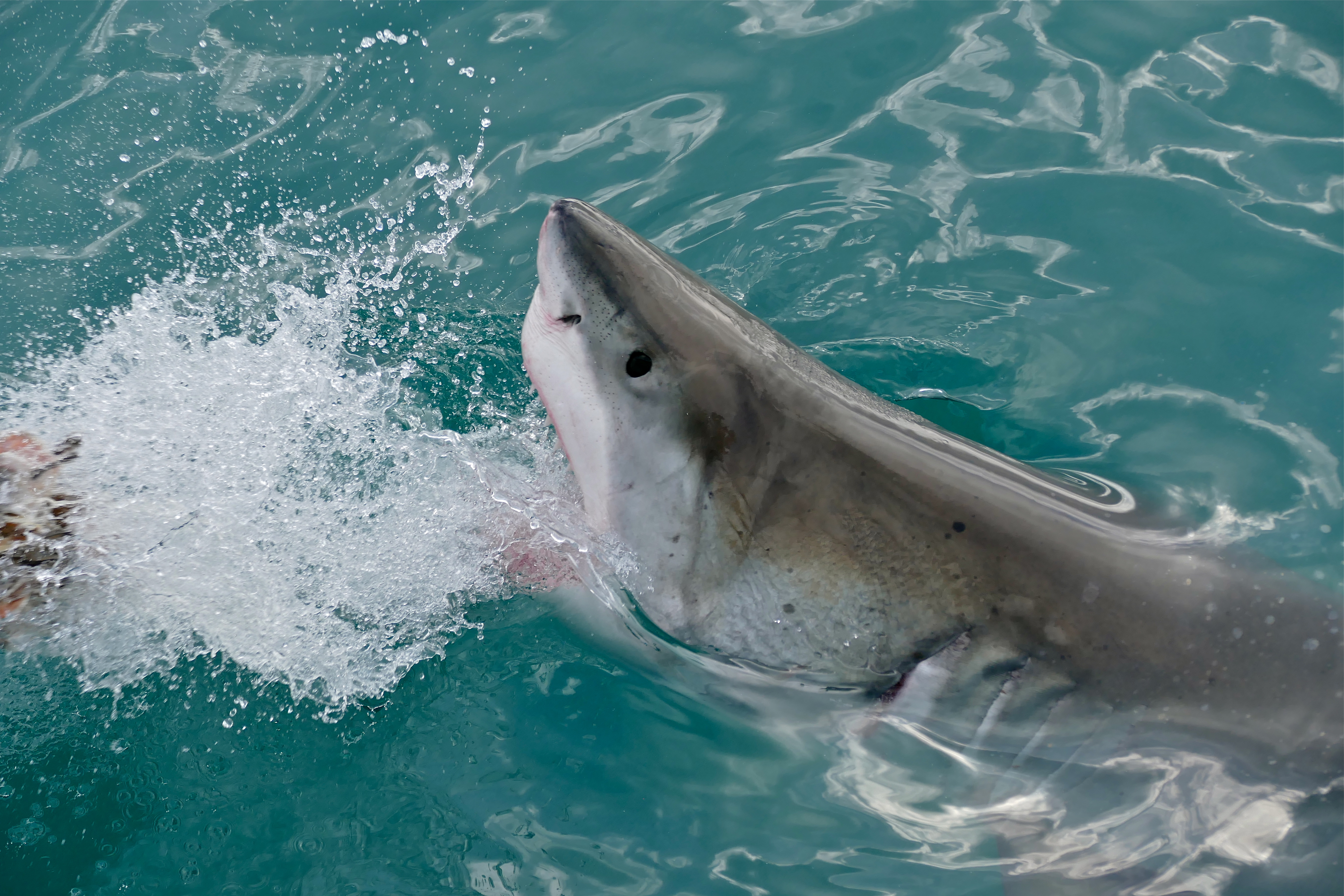 The Shallows, Gansbaai, Western Cape, SOUTH AFRICA